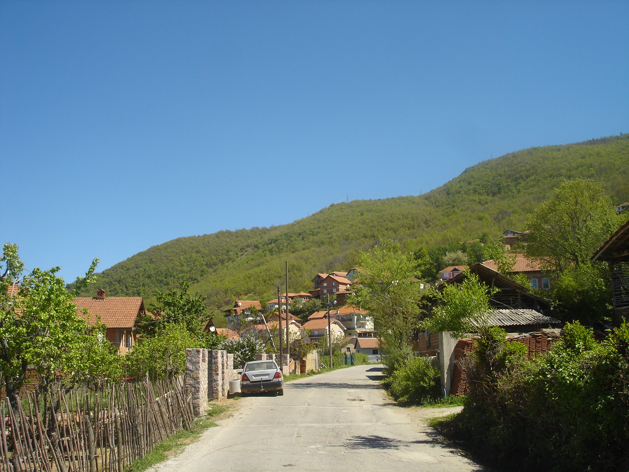 village of Gorenci, near Debar, Macedonia